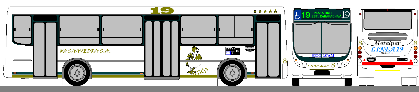 Metalpar Tronador bus with Mercedes Benz OH 1315 L-sb chassis in Buenos Aires, Argentina. Colectivo, line 19.